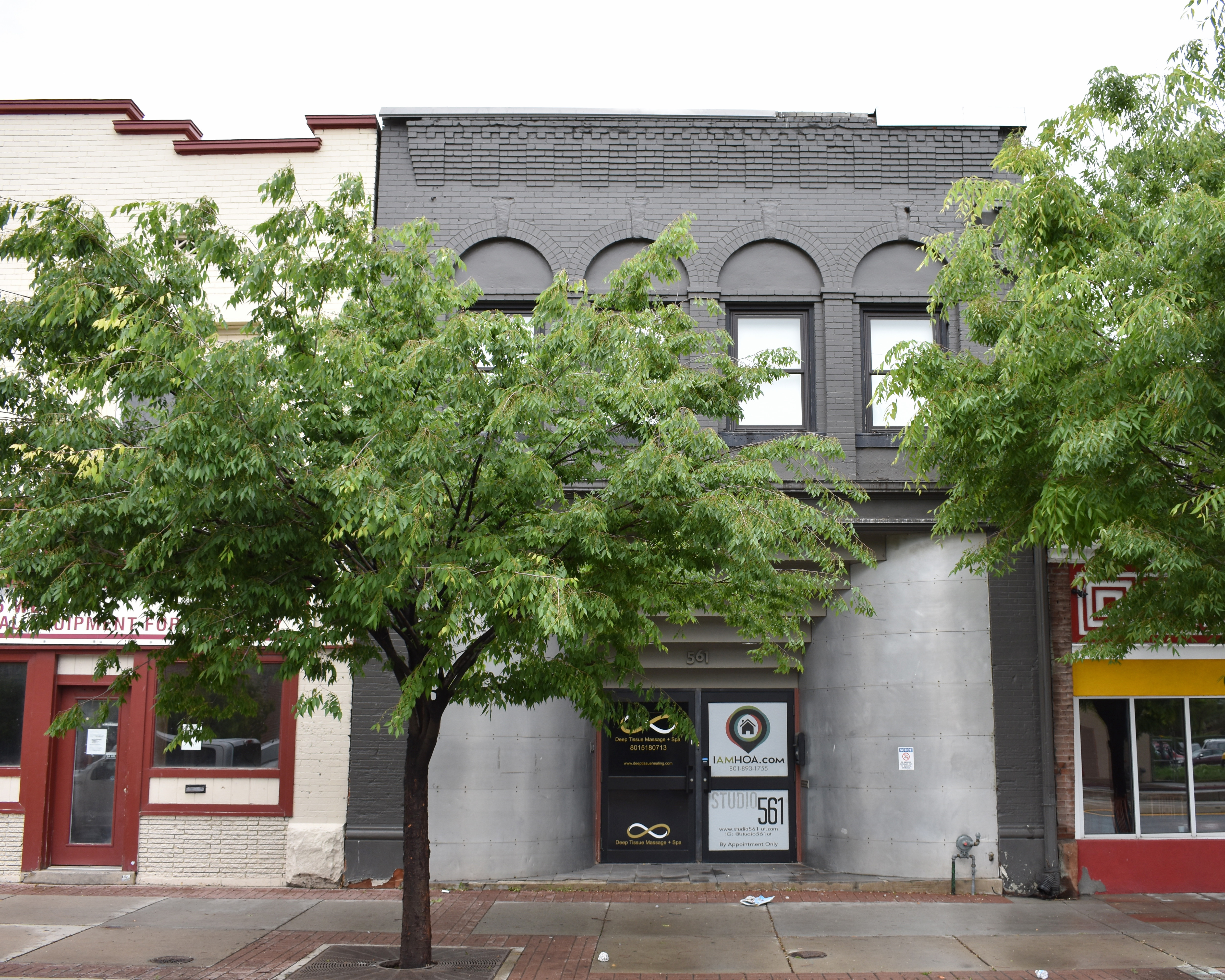 The Building at 561 W 200 South in Salt Lake City is listed on the National Register of Historic Places. The building has been modified.